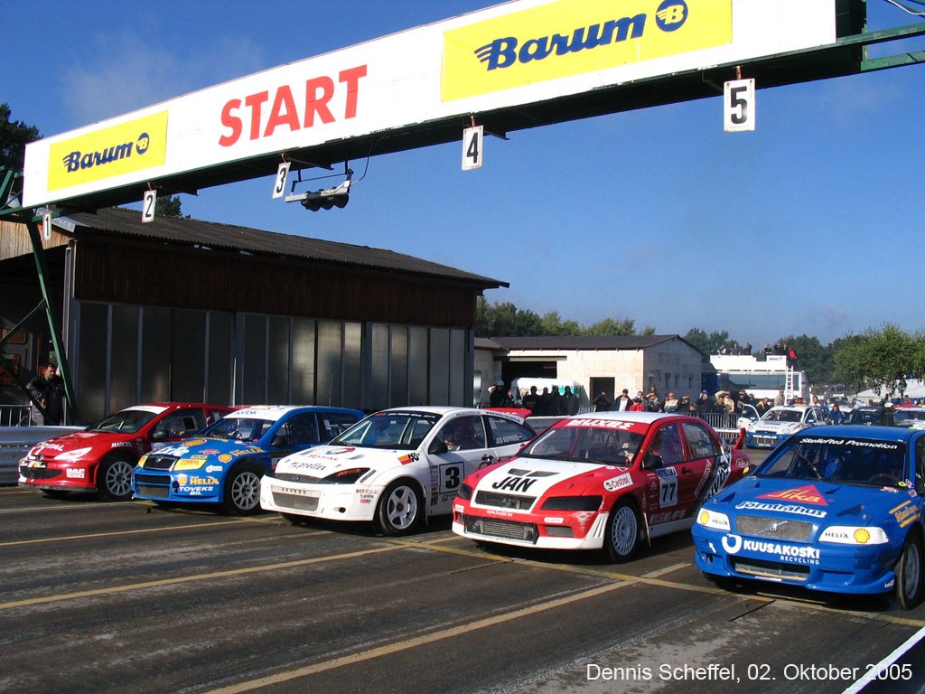 Lineup to the EM 2005 at the Estering in Buxtehude, Germany. Photo is taken by me, 2. October 2005. Tiefflieger 23:03, 8 May 2006 (UTC)